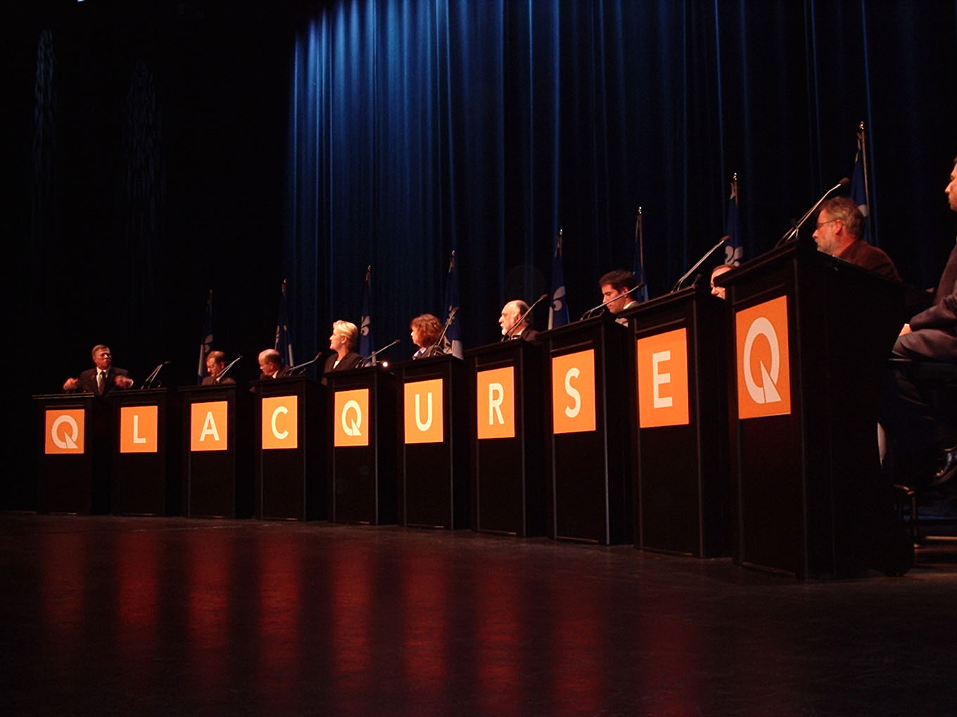 Picture of the Quebec City public debate during the Parti Québécois leadership election, 2005. Taken by Benoît Rheault, Liberlogos.